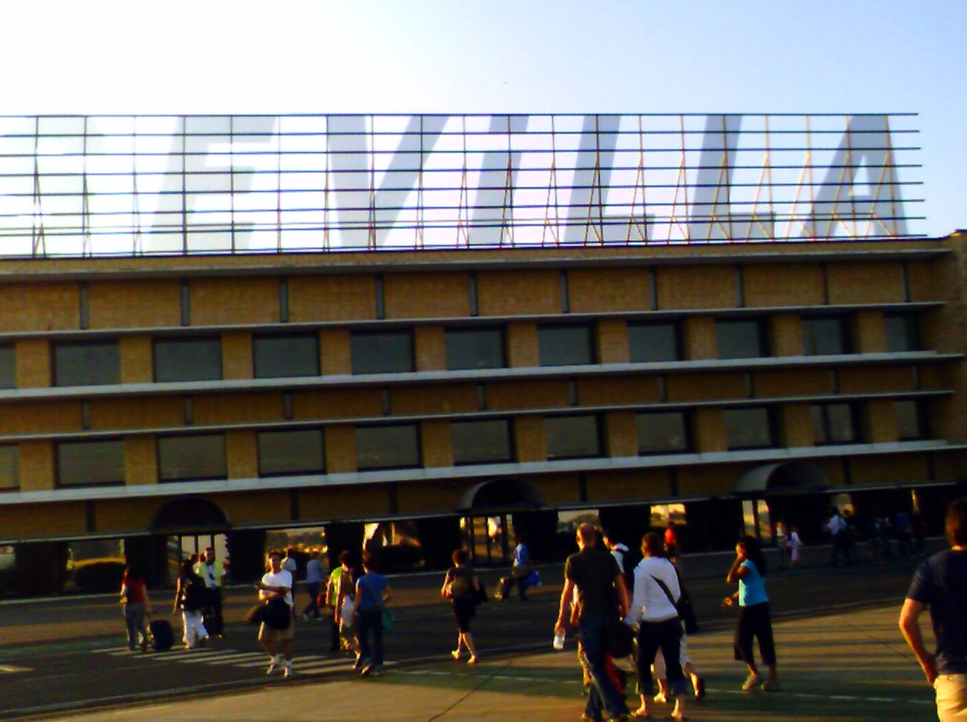 San Pablo Airport (IATA: SVQ), Seville. Photo by E Asterion u talking to me?